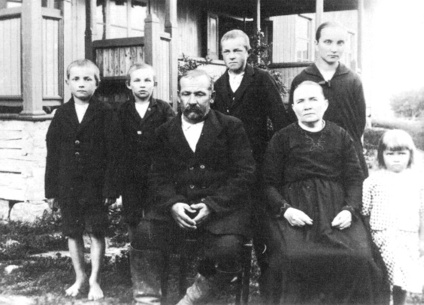 Photograph of the Finnish farmers Albert and Amalia Kananen with their children Arvo, Eelis, Viljo, Tyyne and Toini.